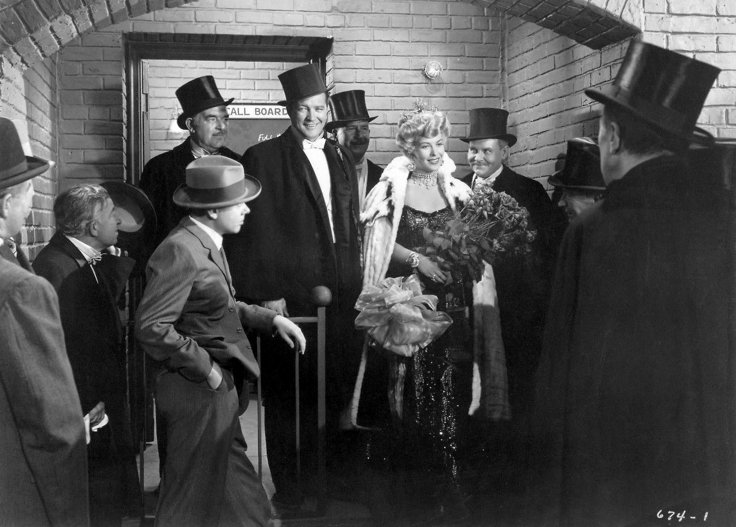 Promotional photograph for the 1947 film My Wild Irish Rose Caption reads as follows:1. Chauncey Olcott (Dennis Morgan) manages to crash the after-theatre party of Lillian Russell (Andrea King). She likes him, but prefers her wealthier suitors.